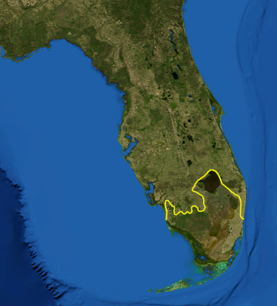 This is a map showing the location of the Everglades. The yellow line encloses ecoregions as delineated by the World Wide Fund for Nature: the "Everglades" (NT0904) and the "South Florida rocklands" (NT0164). I, Pfly, made it using NASA Blue Marble imagery and ecoregion GIS data which I simplified and digitized in Photoshop.